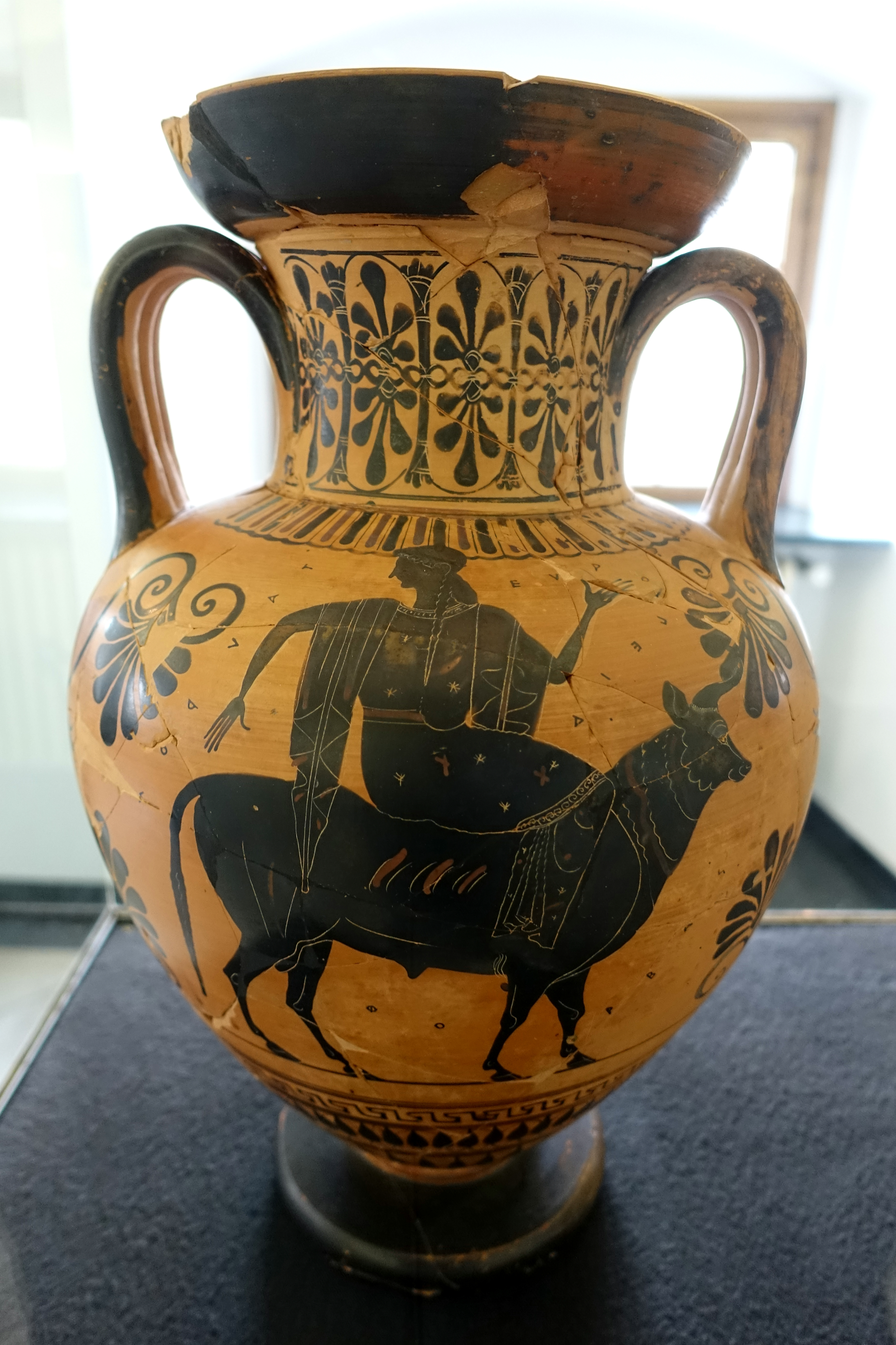 Exhibit in the Martin von Wagner Museum - Würzburg, Germany.